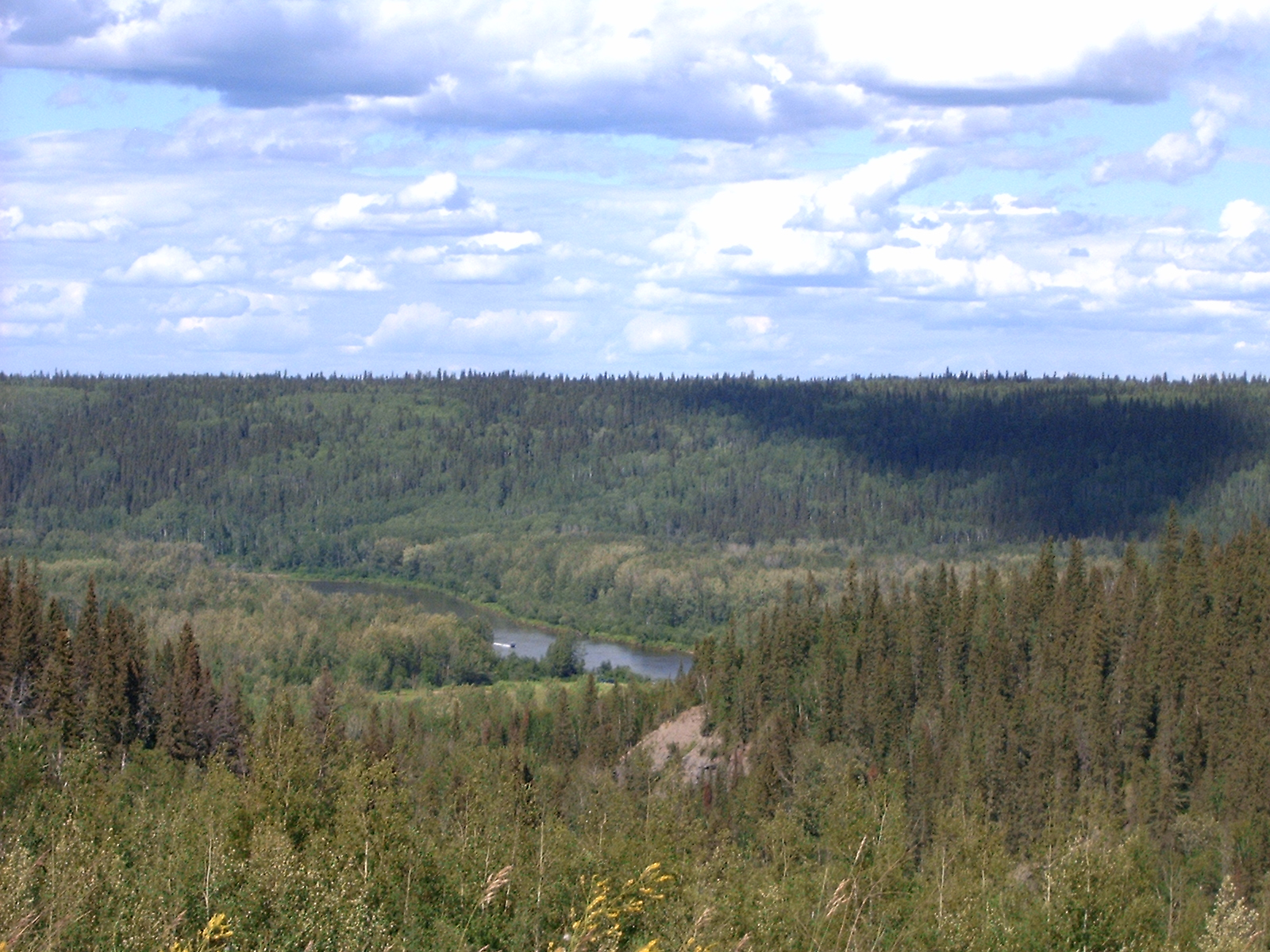 A view of the Clearwater River valley, taken from beside Highway 63 in Fort McMurray, Alberta.